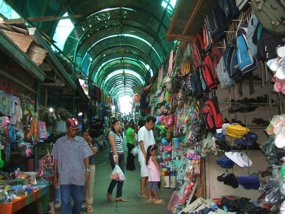 Public market, Masbate City, Masbate, Philippines